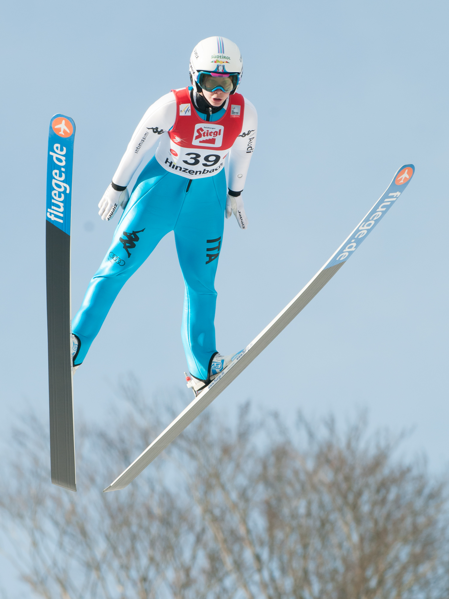 FIS Ski Jumping World Cup Ladies Hinzenbach 2016-02-07